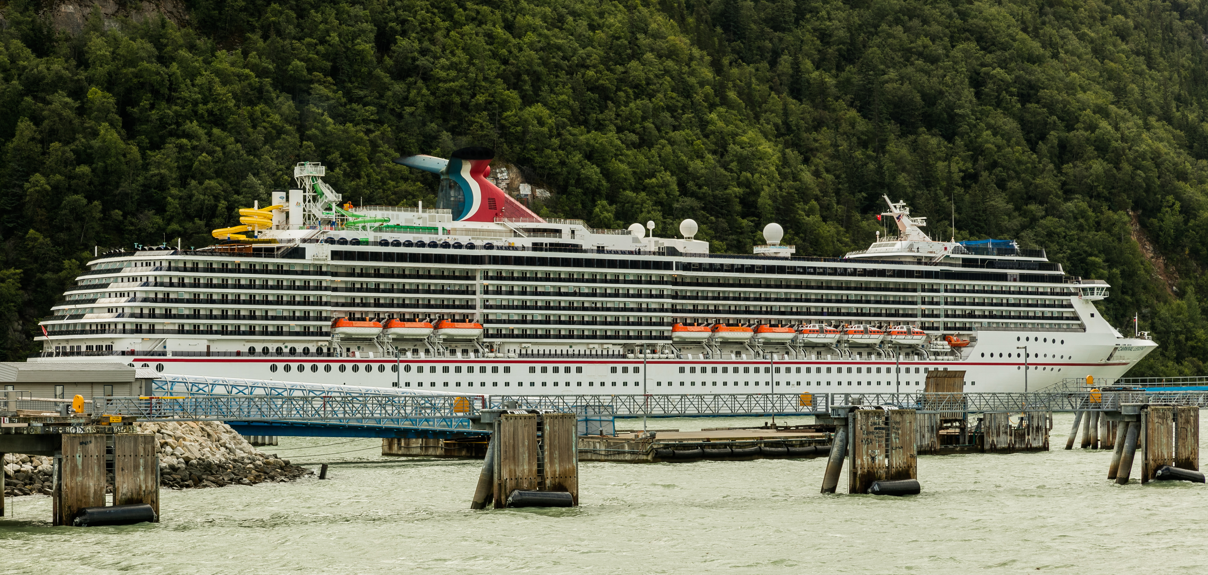 Carnival Legend vessel, Skagway, Alaska, USA